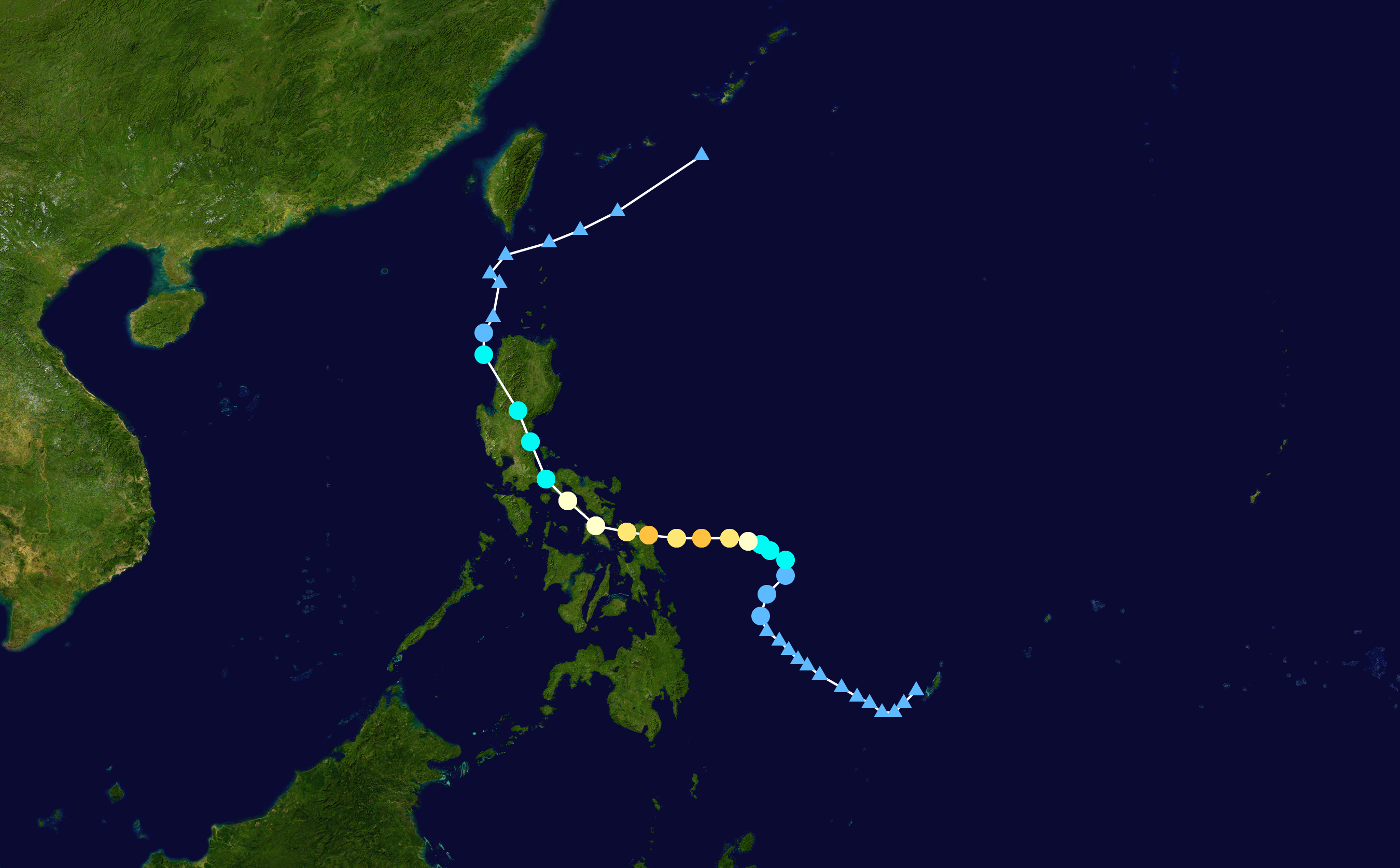 Track map of Typhoon Vongfong of the 2020 Pacific typhoon season. The points show the location of the storm at 6-hour intervals. The colour represents the storm's maximum sustained wind speeds as classified in the Saffir–Simpson scale (see below), and the shape of the data points represent the nature of the storm, according to the legend below. Saffir–Simpson scale Tropical depression≤38 mph≤62 km/h Category 3111–129 mph178–208 km/h Tropical storm39–73 mph63–118 km/h Category 4130–156 mph209–251 km/h Category 174–95 mph119–153 km/h Category 5≥157 mph≥252 km/h Category 296–110 mph154–177 km/h Unknown Storm type Tropical cyclone Subtropical cyclone Extratropical cyclone / Remnant low / Tropical disturbance / Monsoon depression